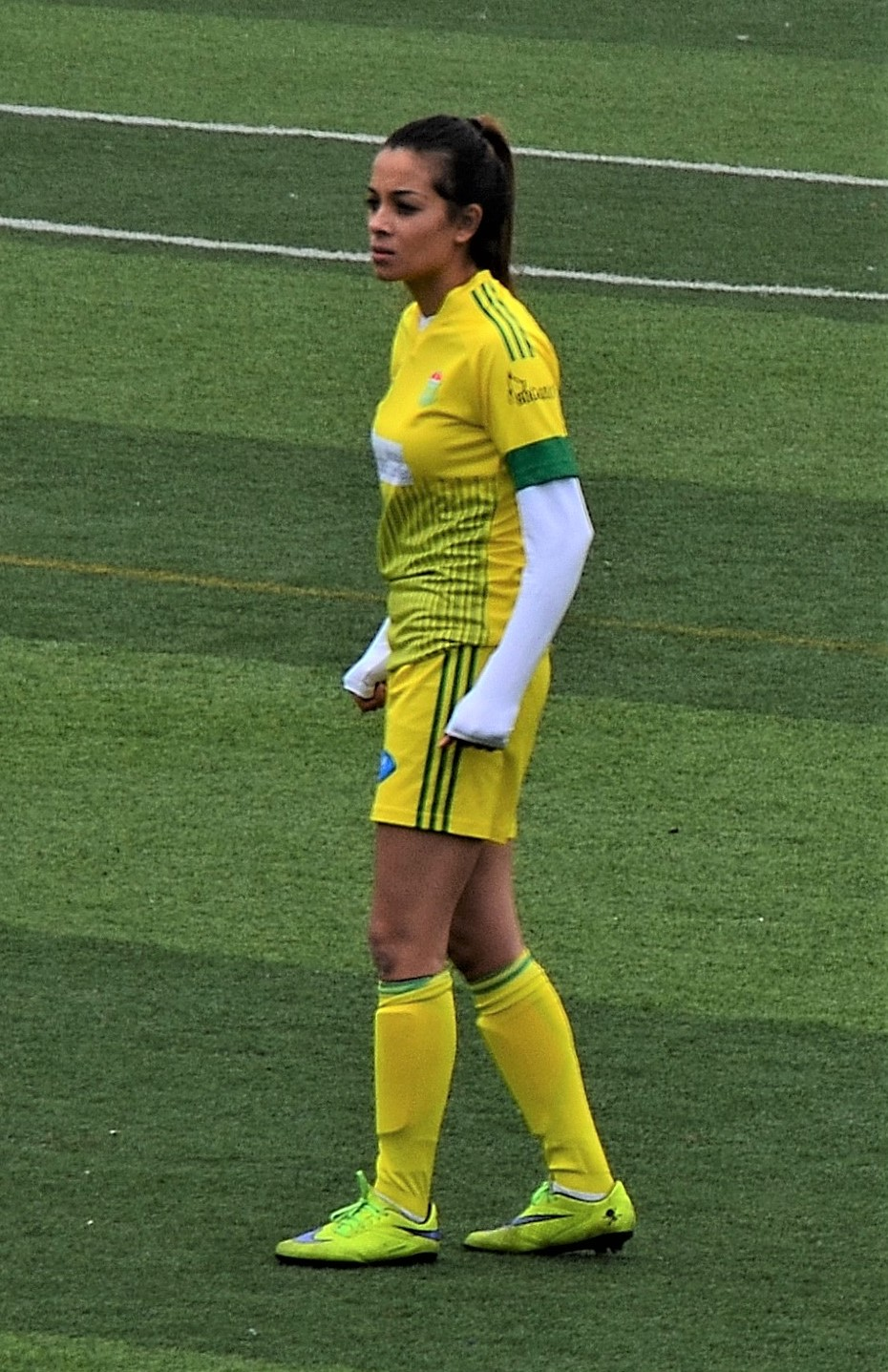 Sevgi Salmanlı playing for Kireçburnu Spor in the 2015-16 Turkish Women's First Football League.